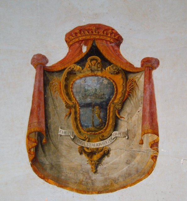 Palazzo Pinelli: Foglia's coat of arms